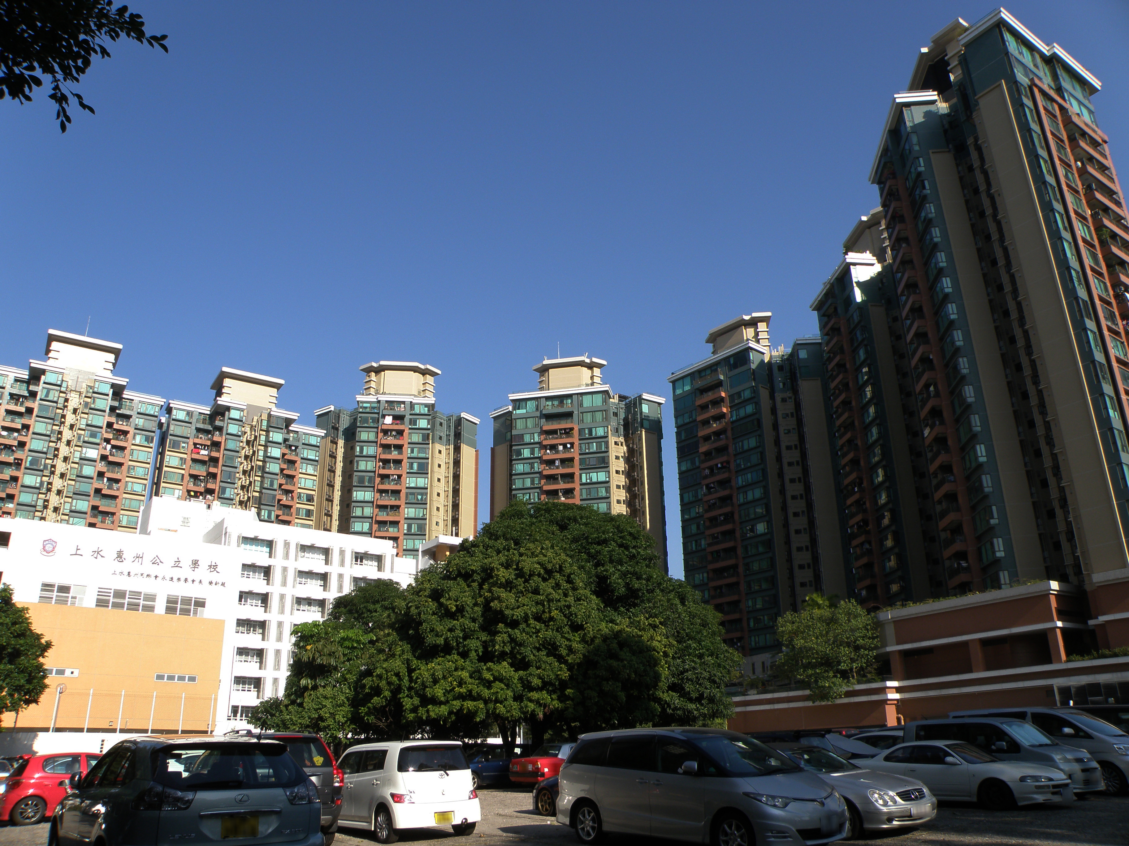 Noble Hill in Sheung Shui, Hong Kong.